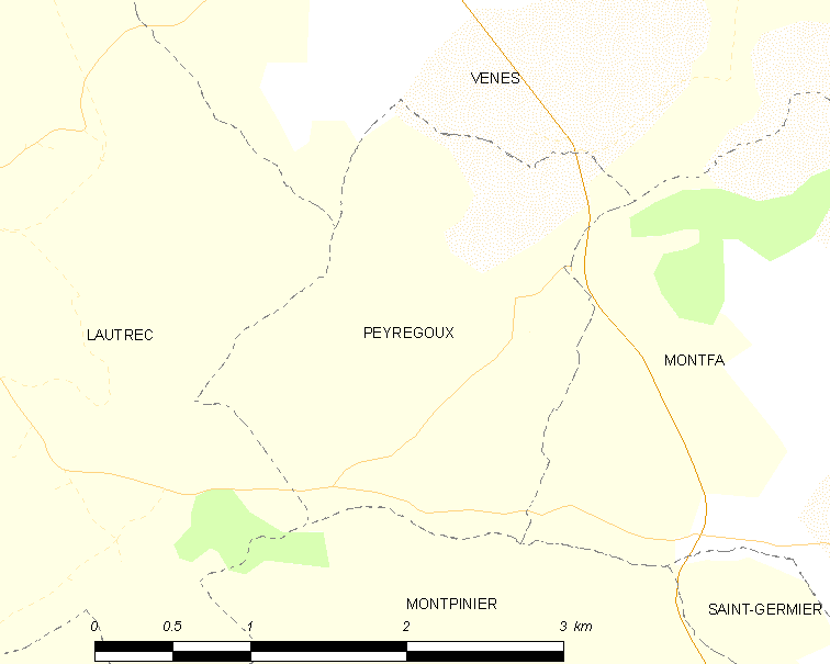 Map of French municipality Peyregoux